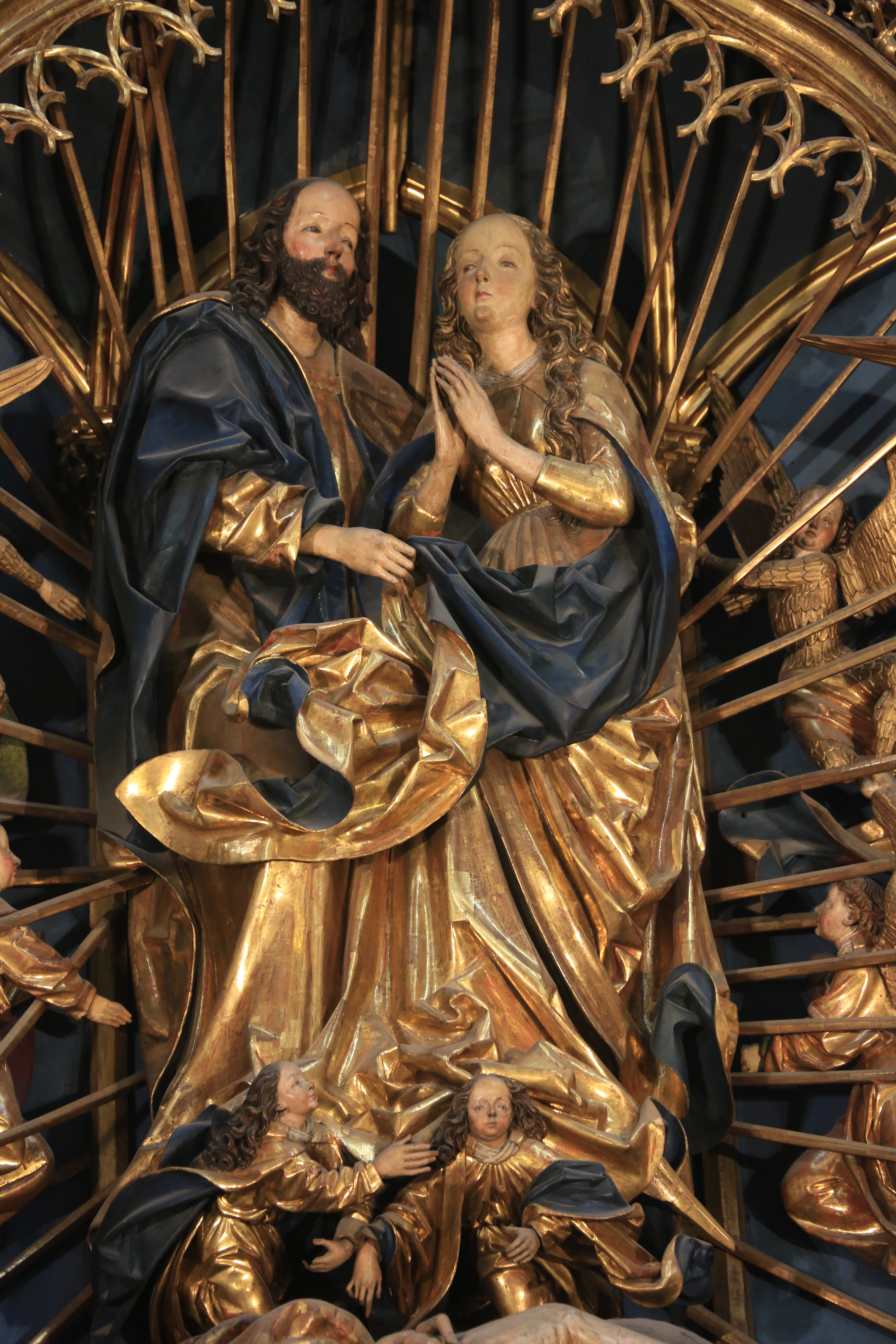 Wit Stwosz Altar in St. Mary's Church, Kraków.